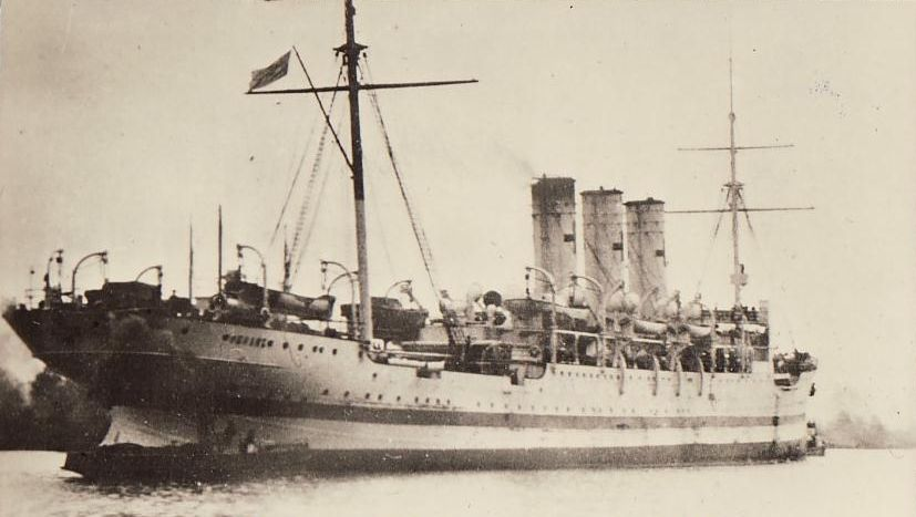 "Okean" as Hospital Ship